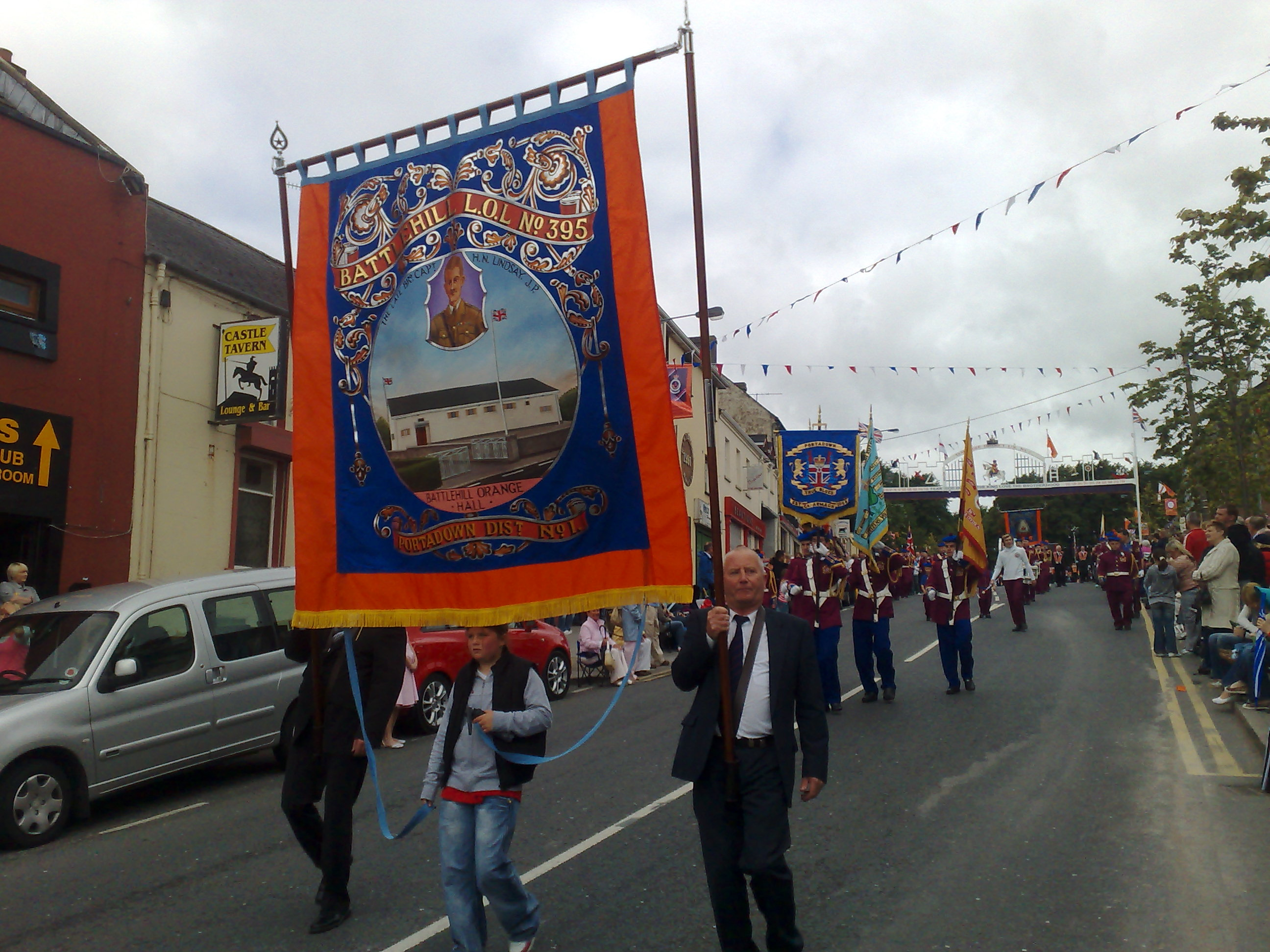 Battlehill Loyal Orange Lodge No. 395 descend Market Street, Tandragee, during the County Armagh en:12th July en:2008 festivities. The lodge is in Portadown District No. 1. Behind the banner is a flute band from Portadown.